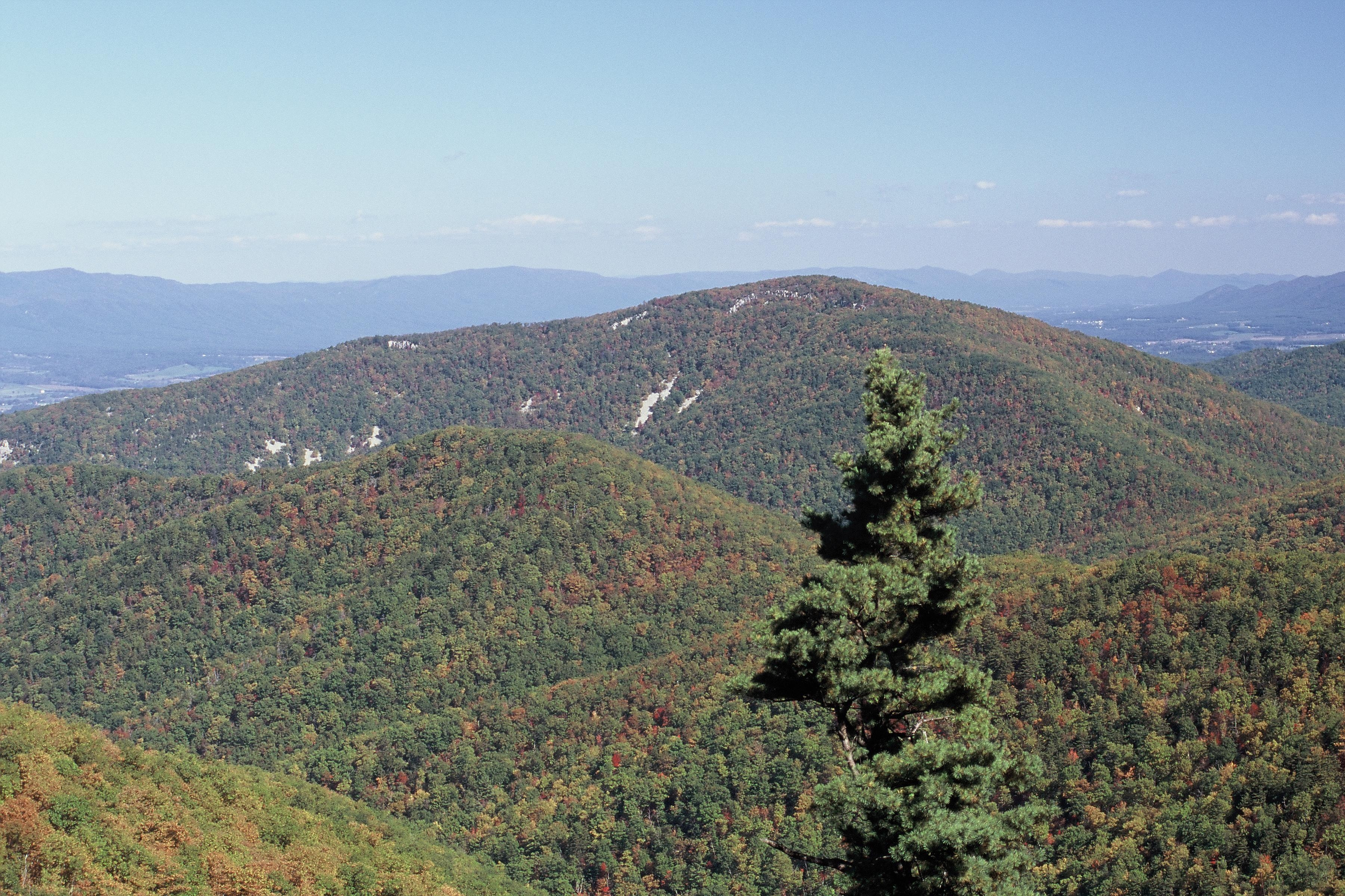 Rocky Mount in Shenandoah National Park, Virginia, USA